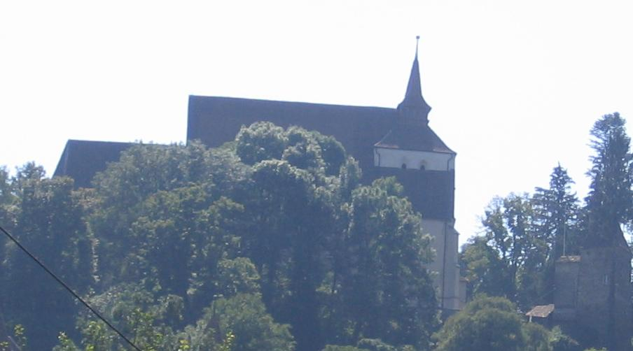 Church on the Hill in Sighisoara